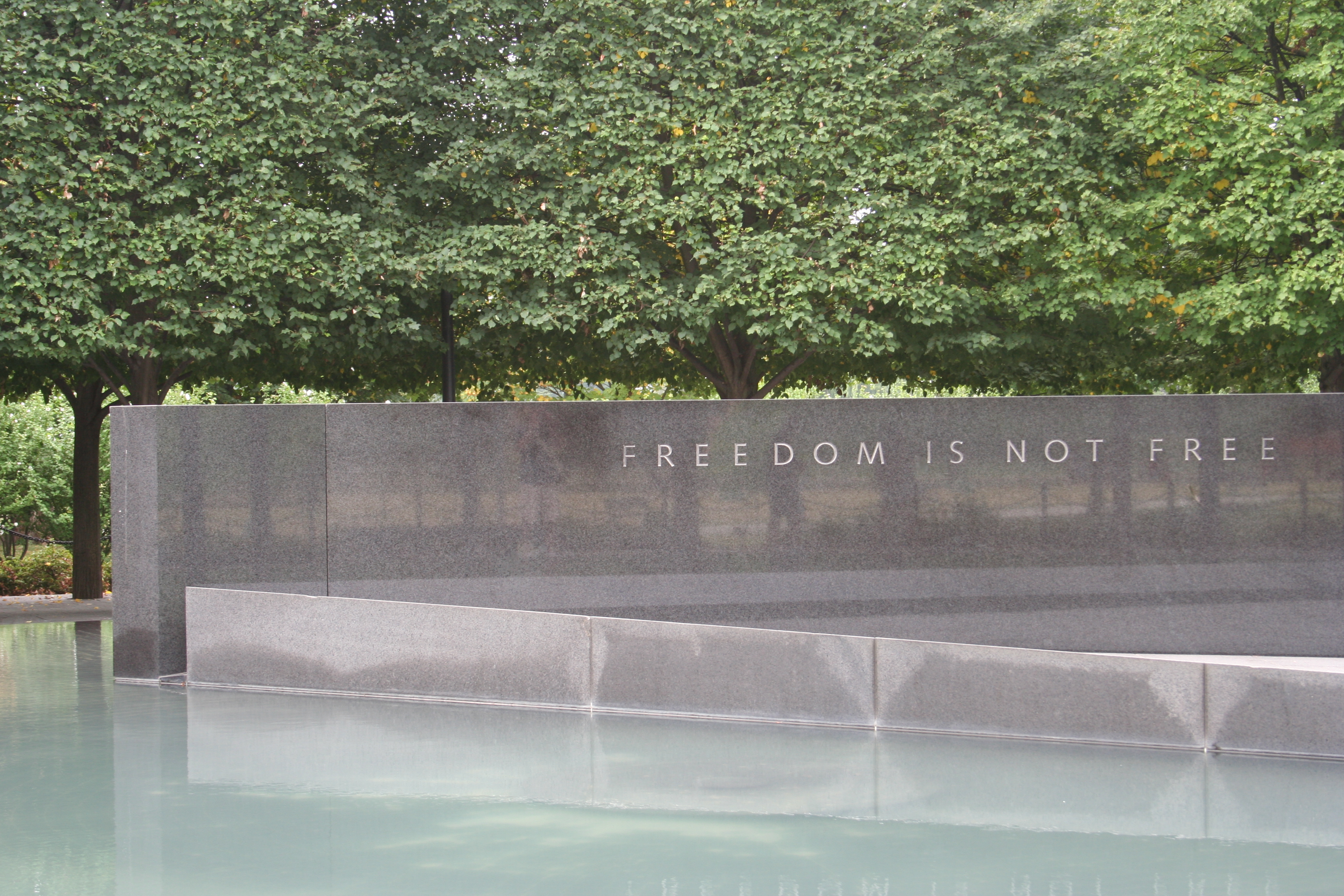 Freedom is not free. Picture taken in Washington, D.C.